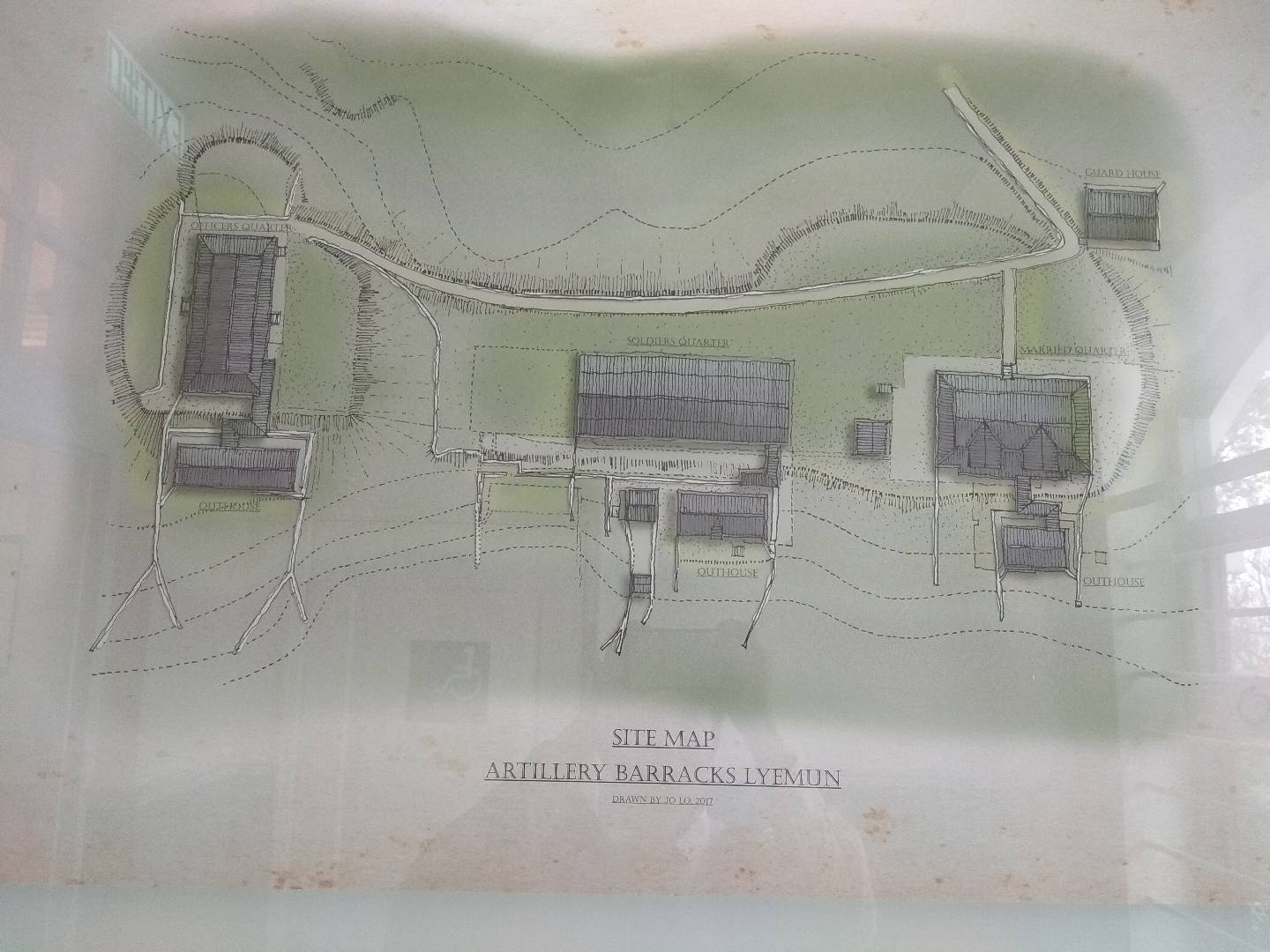 Drawings of old building structure locations of the Artillery Barracks.